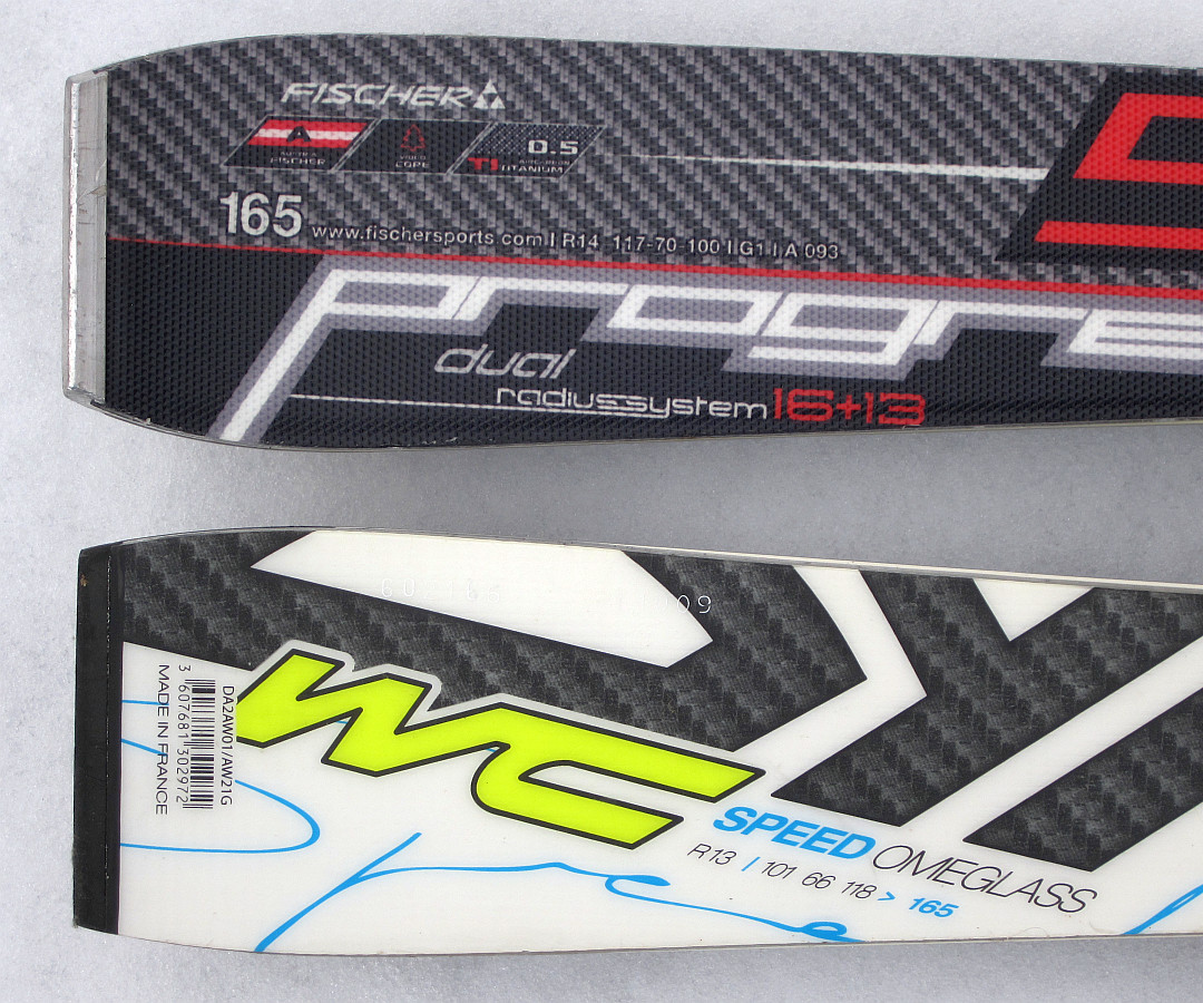 Sidecut and radius data on 165 cm alpine skis Top: multiradius ski (Fischer Progressor 9+), sidecut (mm) 117-70-100, radius 13 m (front) and 16 m (tail) Bottom: slalom racing ski (Dynastar Omeglass WC), sidecut 118-66-101, radius 13 m